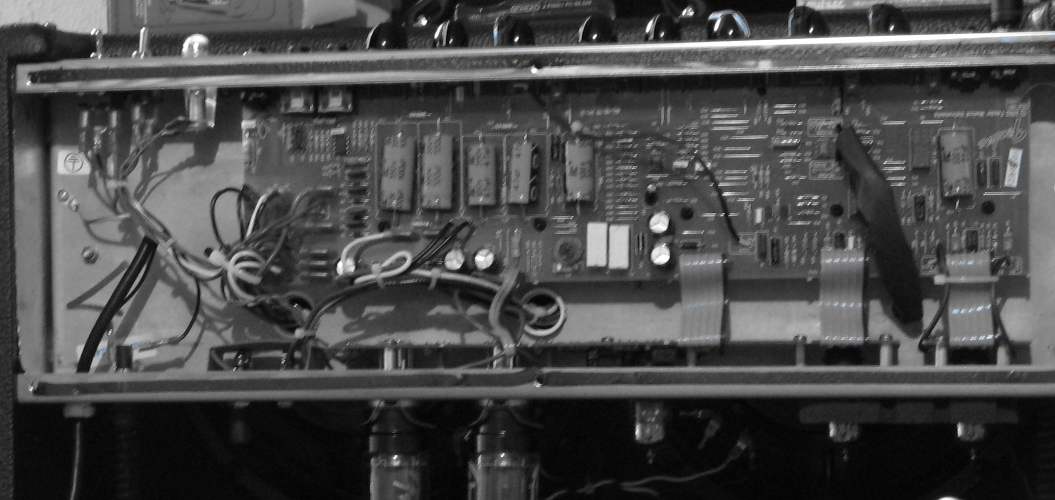 Internals of a Fender Hot Rod DeVille 4x10. Photo taken by myself in October 2008.